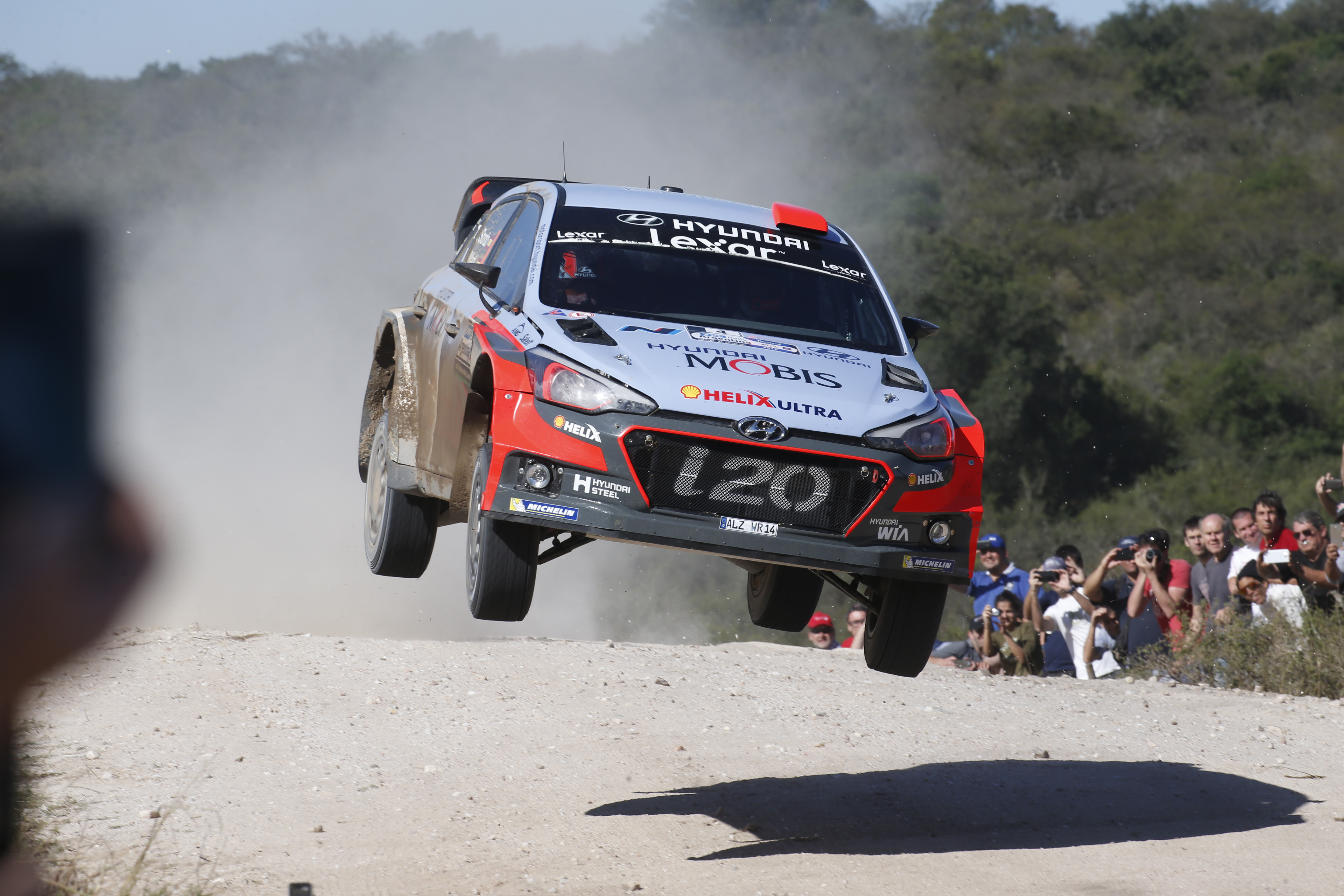 2016 FIA World Rally Championship / Round 04 / Rally Argentina // Dani Sordo and co-driver Marc Martí in their Hyundai i20 WRC.